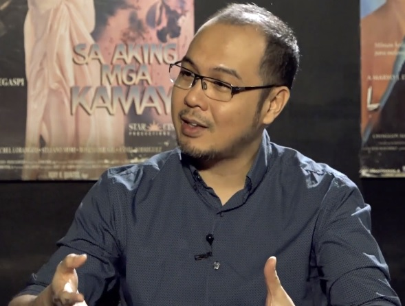 The University of the Philippines’ Internet TV Network (TVUP) interviews Filipino filmmaker Jerrold Tarog